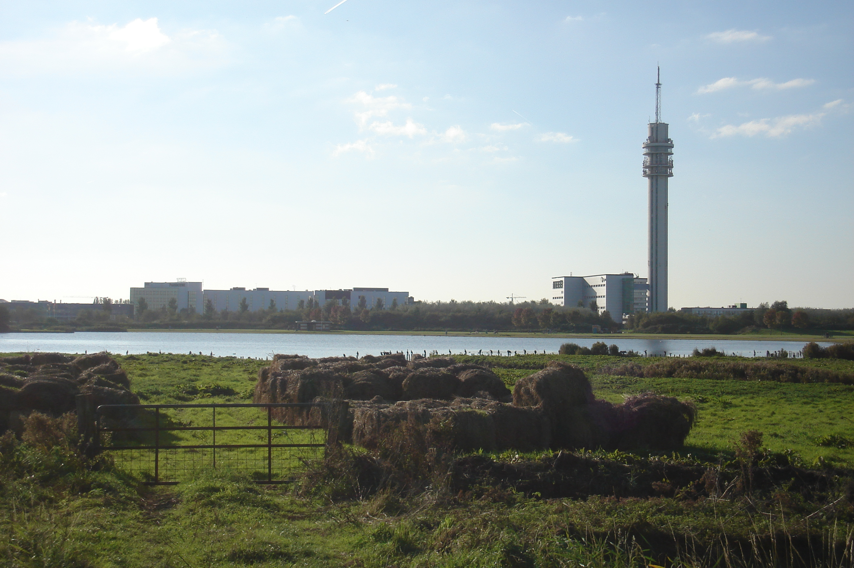 Veerplas artificial lake near Haarlem